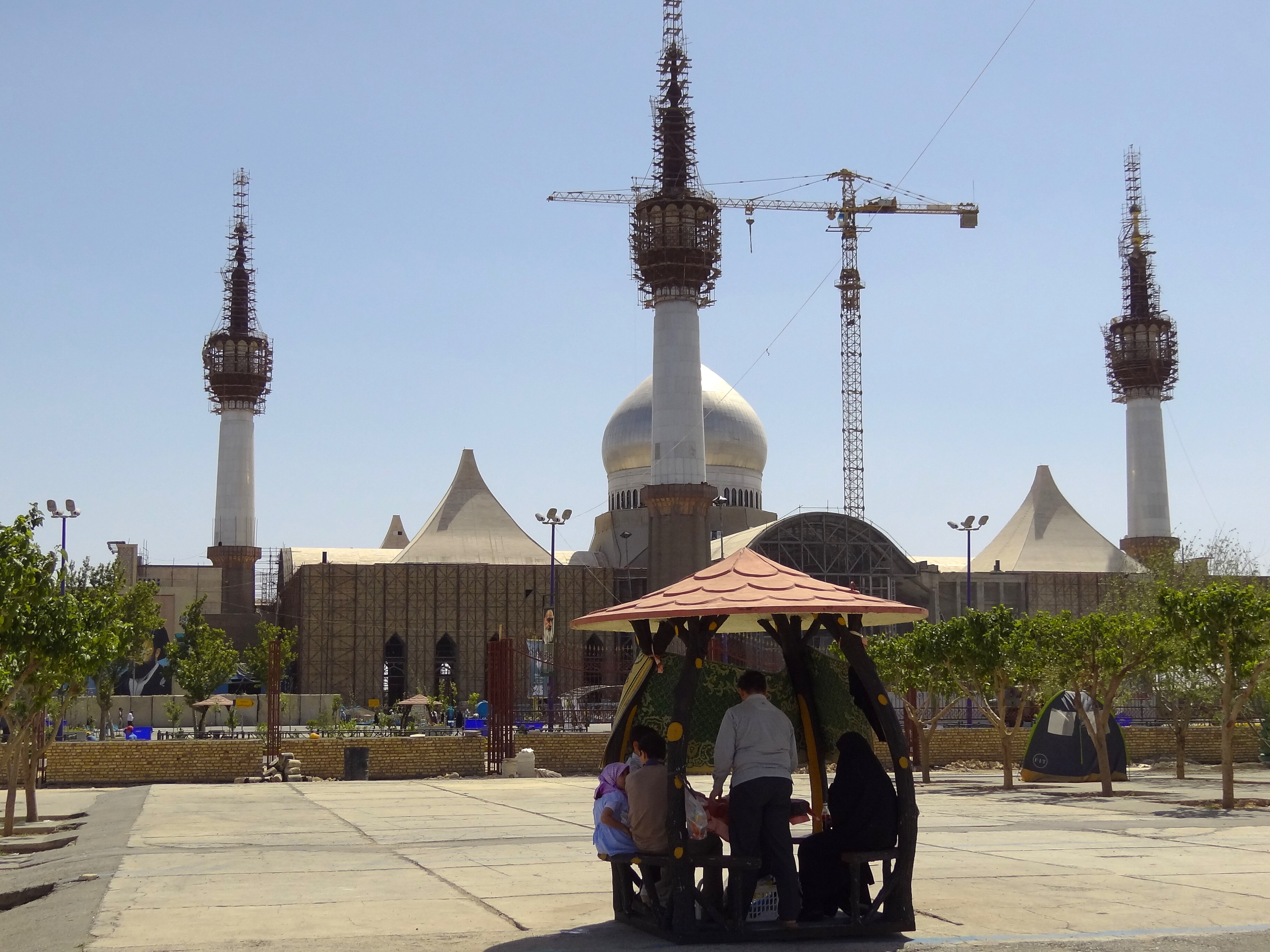 Family Picnic outside Holy Shrine of Imam Khomeini - Tehran - Iran